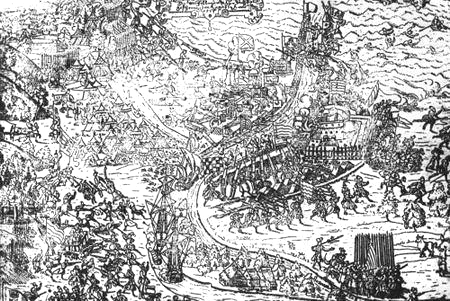 Siege of Danzig by Polish forces 1577